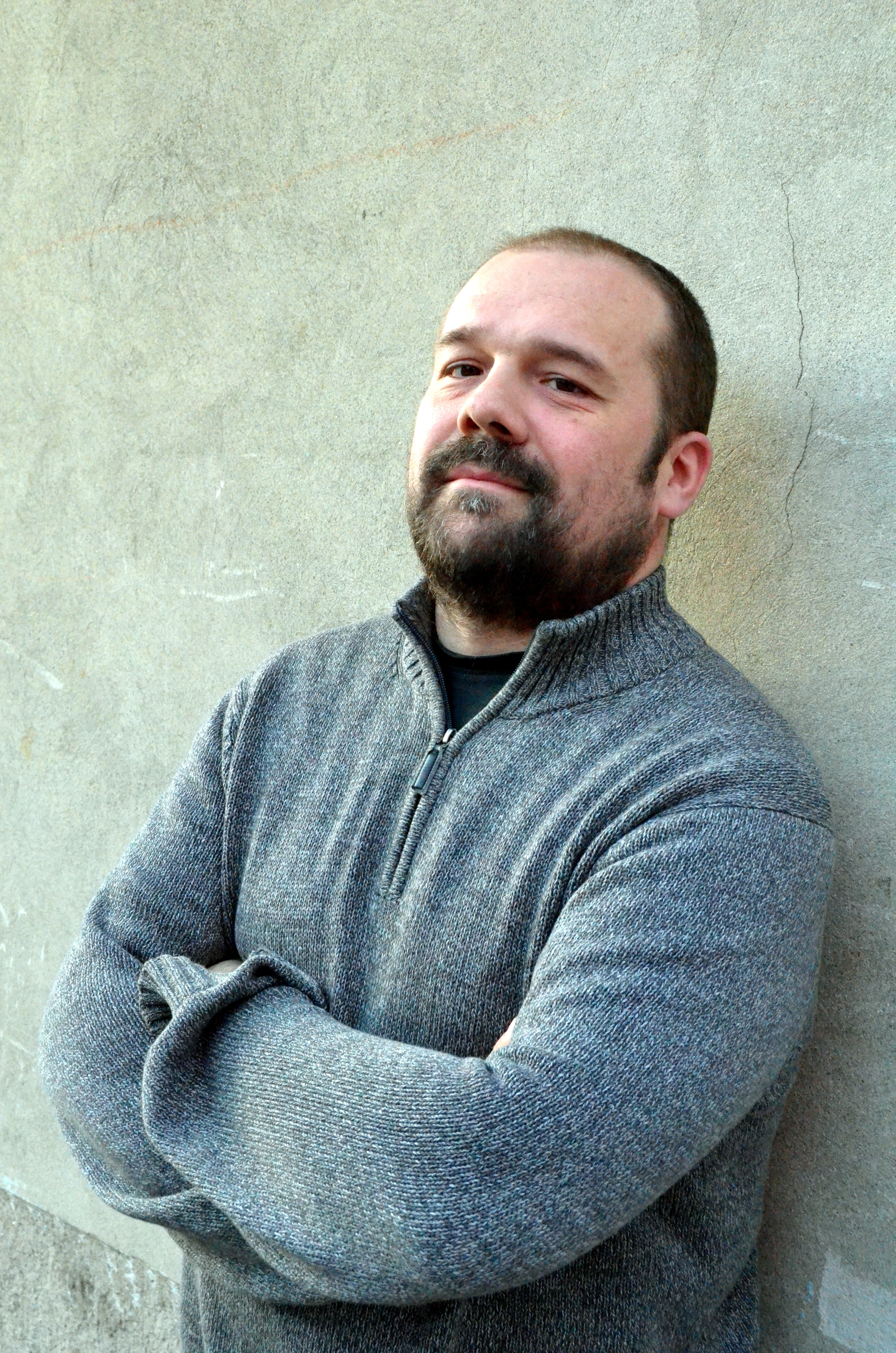 Massimo Banzi portrait